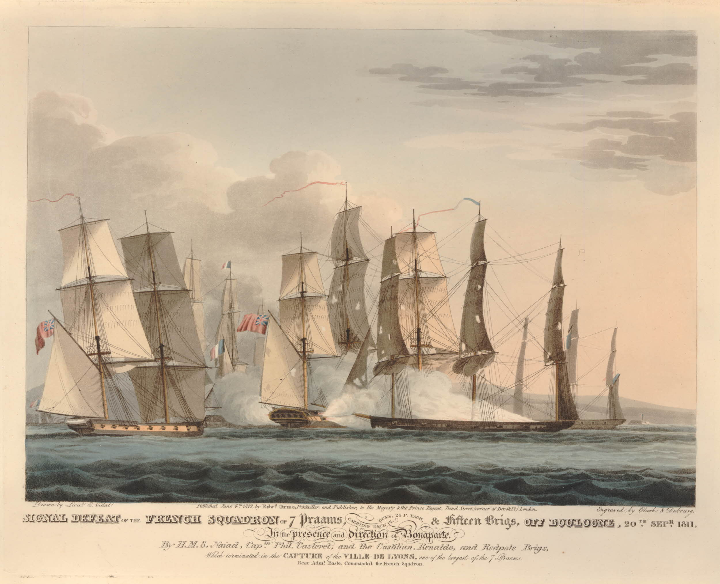 Signal Defeat of the French Squadron of 7 Praams, carrying each 12 Guns, 24 p. each, & Fifteen Brigs, off Boulogne, 20th Sepr.1811, In the presence and direction of Bonaparte, By H.M.S. Naiad, Captn. Phil. Casteret, and the Castilian, Renaldo, and Redpole Brigs, Which terminated in the Capture of the Ville de Lyons, one of the largest of the 7 Praams. Rear Adml. Basle, Commanded the French Squadron."; and with production details, "Drawn by Lieut. E. Vidal/Published June 4th. 1812, by Edwd. Orme, Printseller, and Publisher, to His Majesty & the Prince Regent, Bond Street, (corner of Brook St.) London./Engraved by Clark & Dubourg." Print made by: John Heaviside Clark. Print made by: Matthew Dubourg. Published by: Edward Orme. After: Emeric Essex Vidal